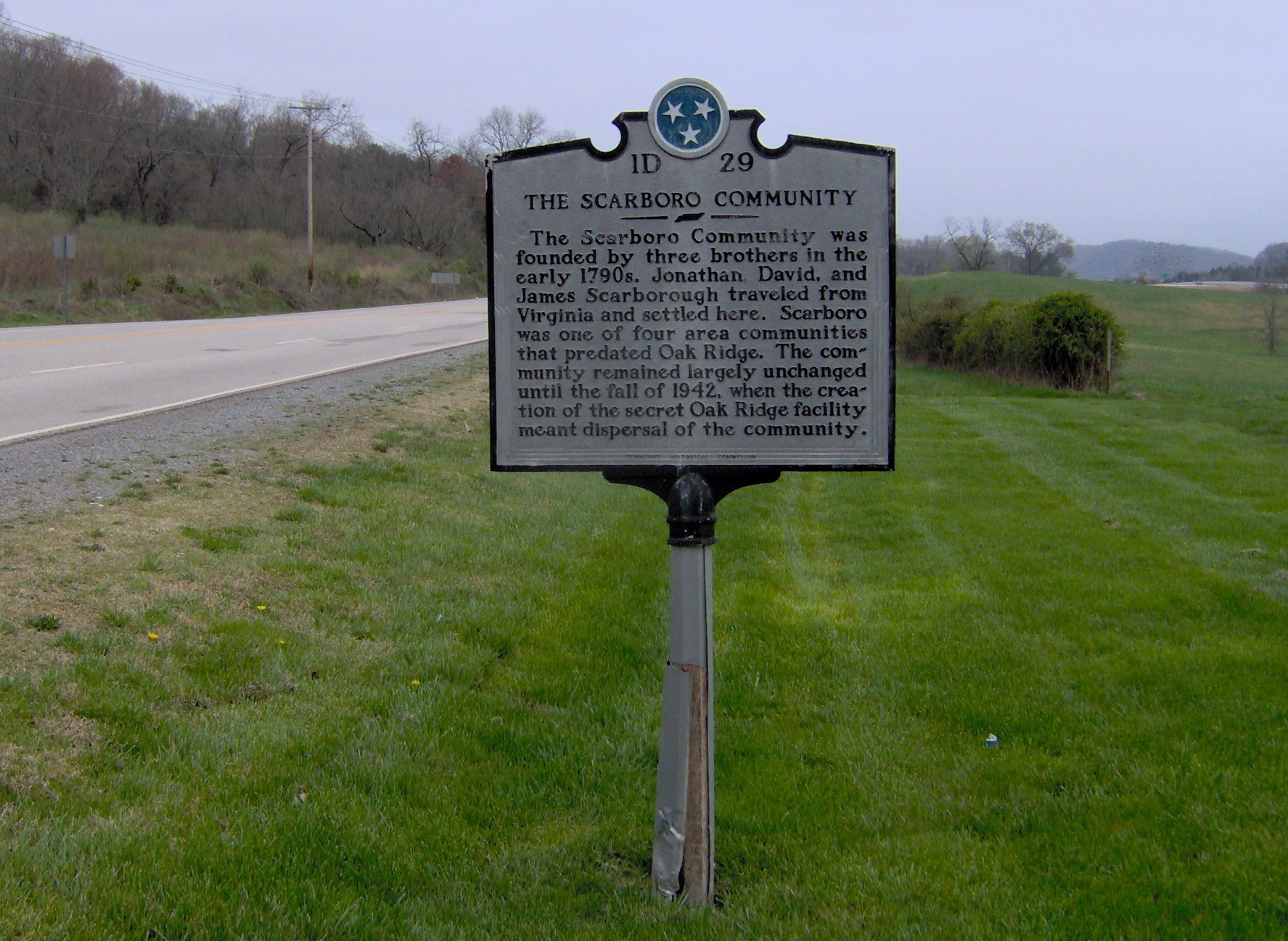 Tennessee Historical Commission marker near the junction of Scarboro Road and Bethel Valley Road in Oak Ridge, Tennessee, in the southeastern United States. Scarboro was one of several communities in the Oak Ridge area dispersed in order to build a base for the Manhattan Project.